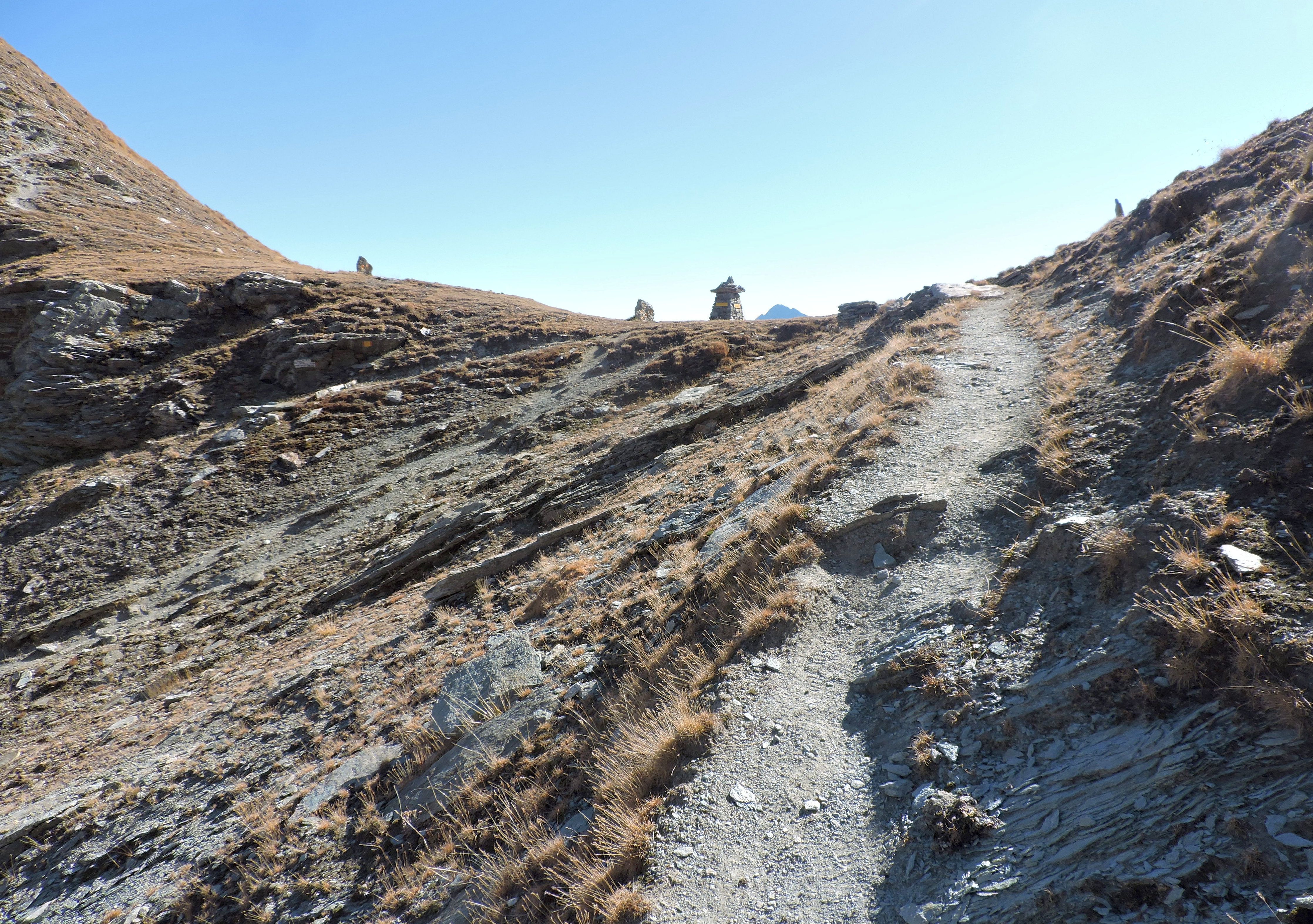 Colle Palasina (Aosta Valley, Italy): Mascognaz side